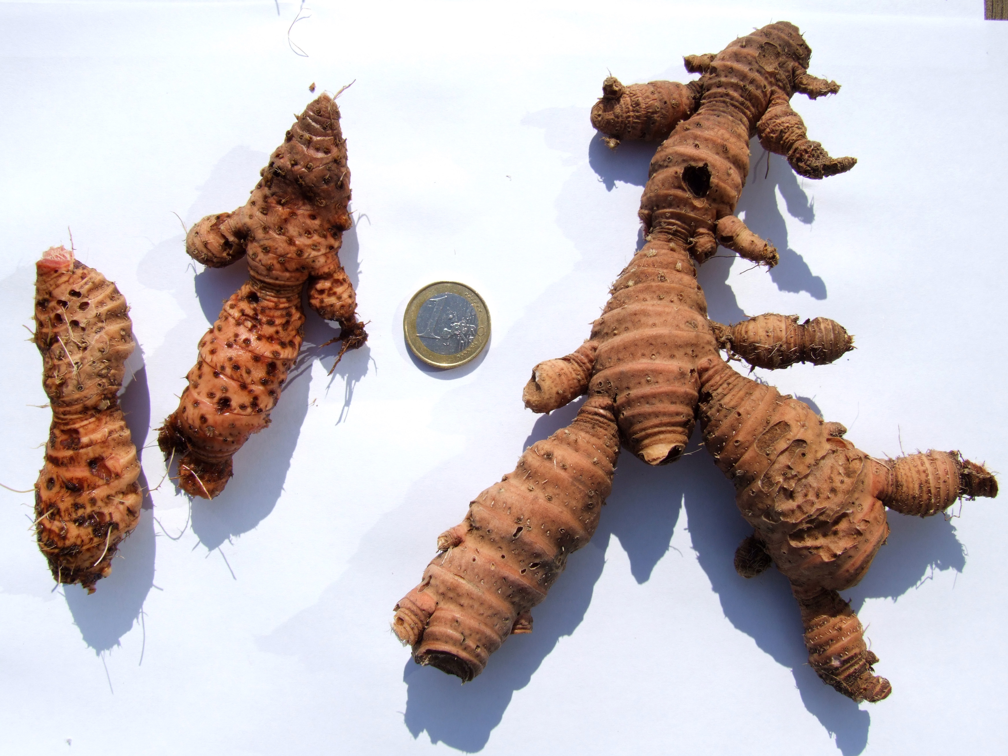 Rhizomes of Iris pseudacorus, left: bottom view, right: top view